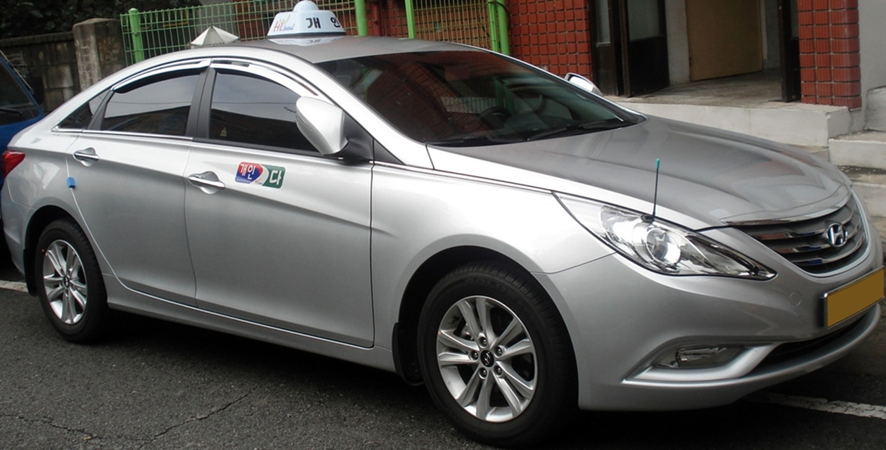 Hyundai Sonata